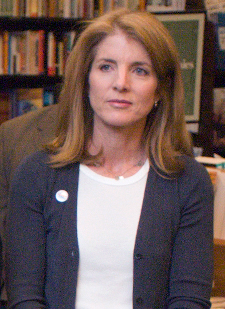 Caroline Kennedy at Barnes & Noble Tribeca, 97 Warren Street, Manhattan.